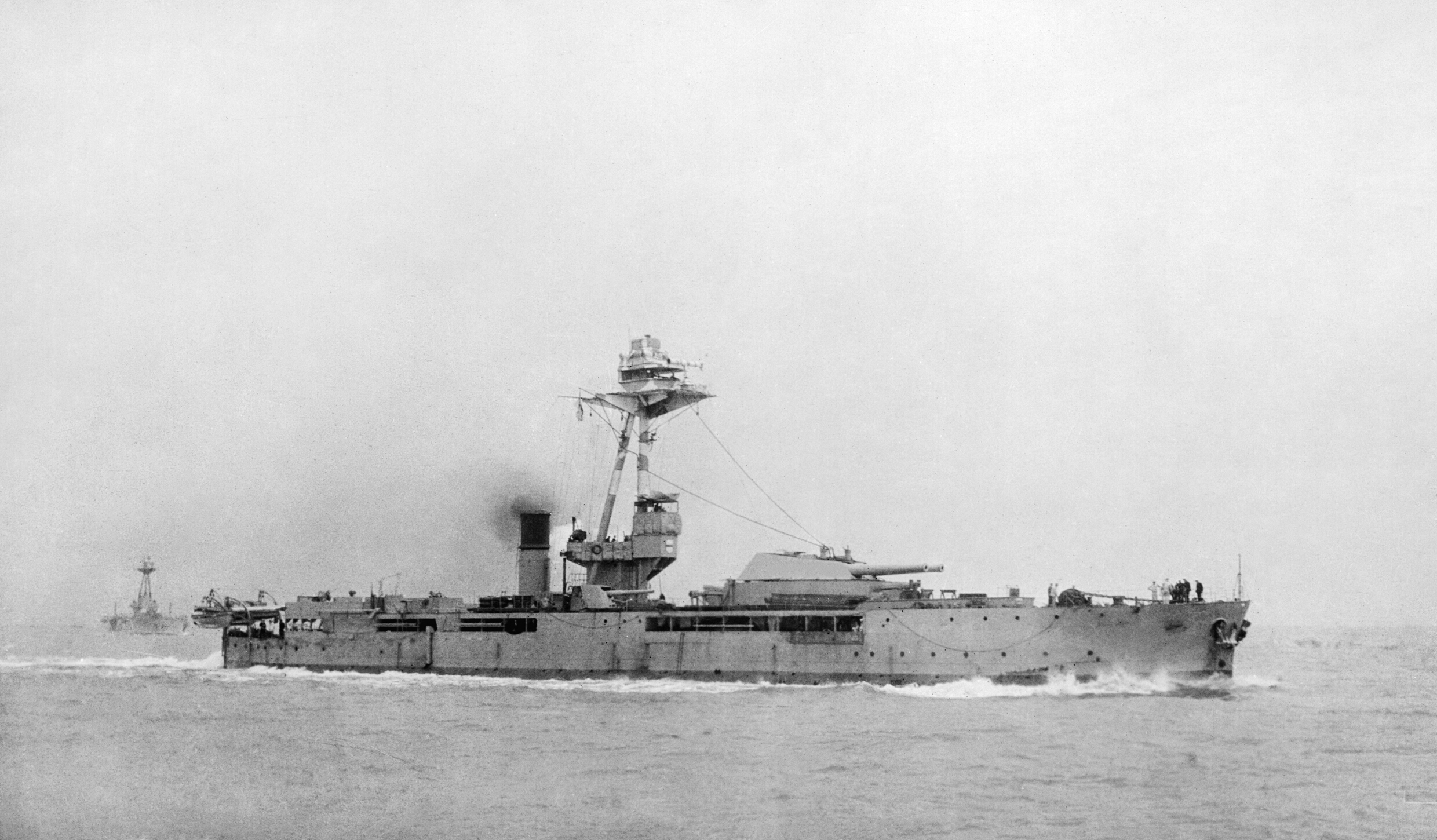 British monitor HMS GENERAL CRAUFURD.